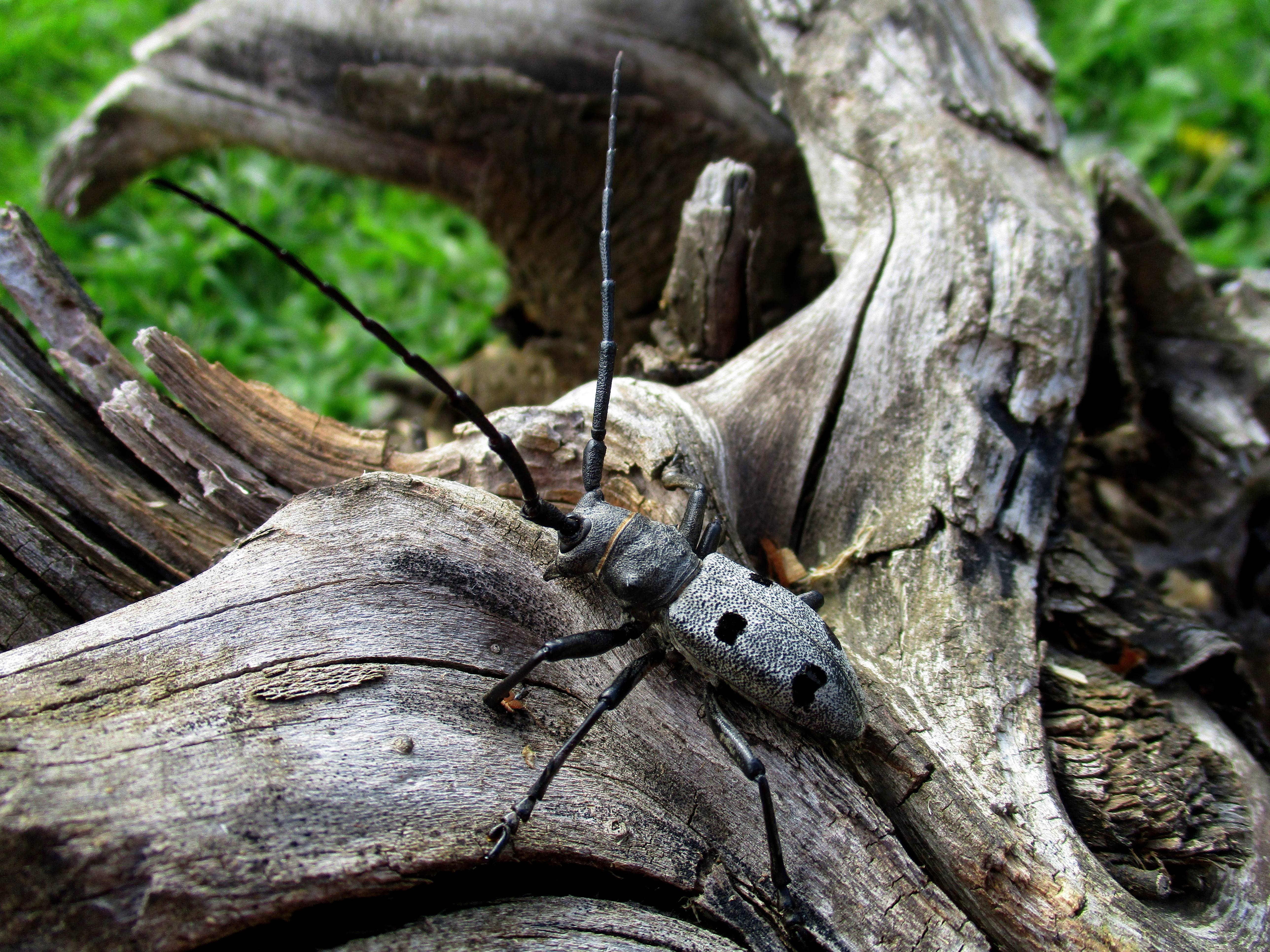 This is rare beetle in Bulgaria